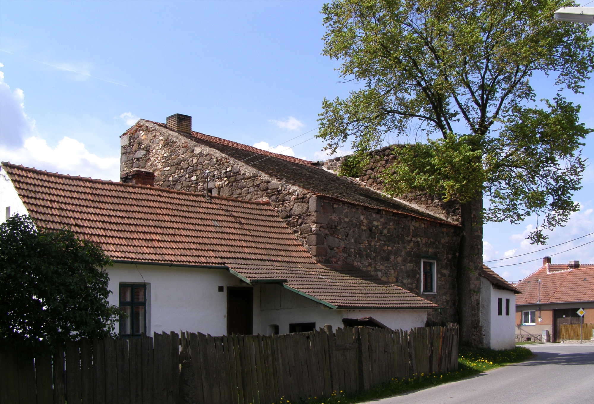 Nárameč. Former keep